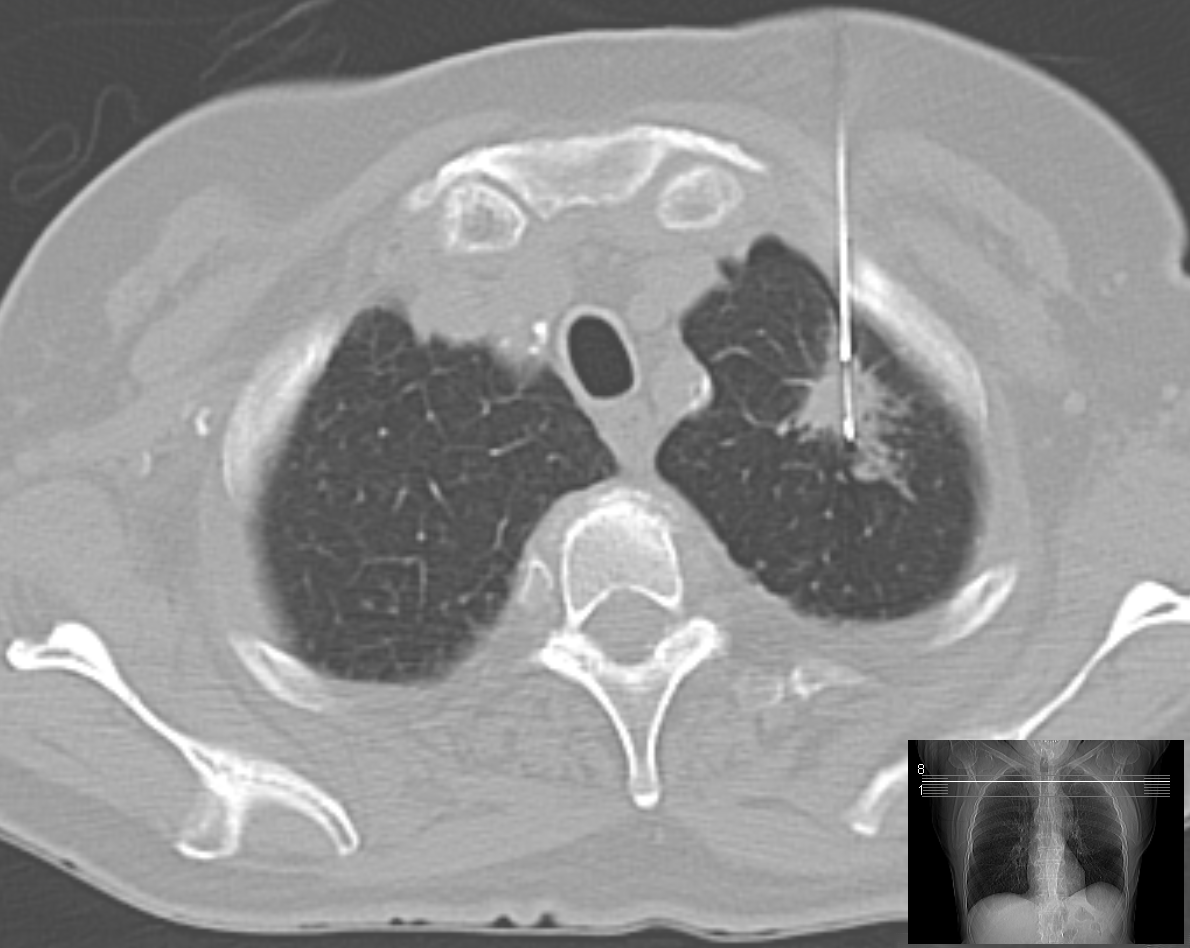 Lung biopsy guided by computertomography: Lung cancer.